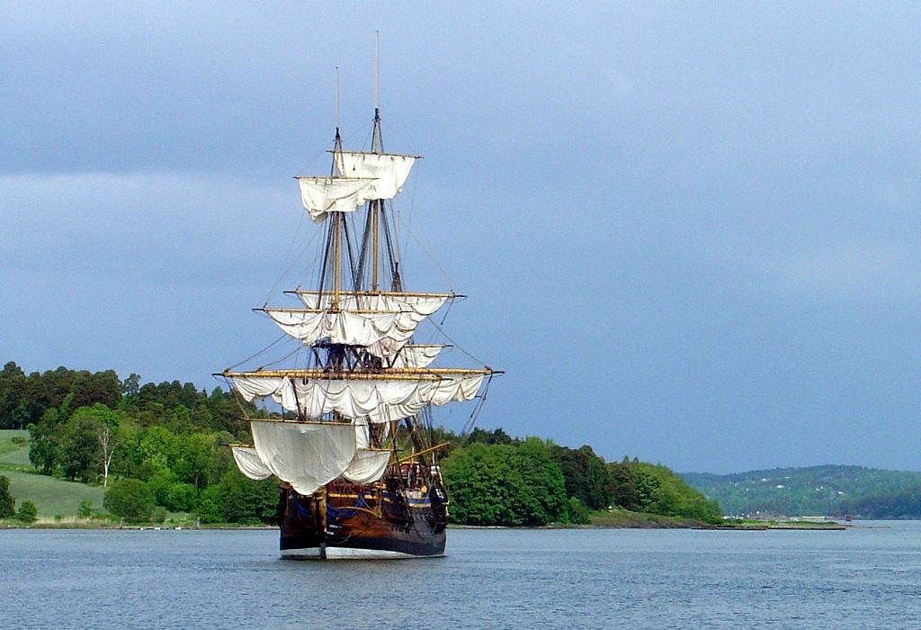 The Swedish wooden sailing vessel, East Indiaman Götheborg, at anchor in Moss, Norway, 13 June 2005. Picture taken by Ulf Larsen. The camera used was a Sony Cybershot DSC-P10.